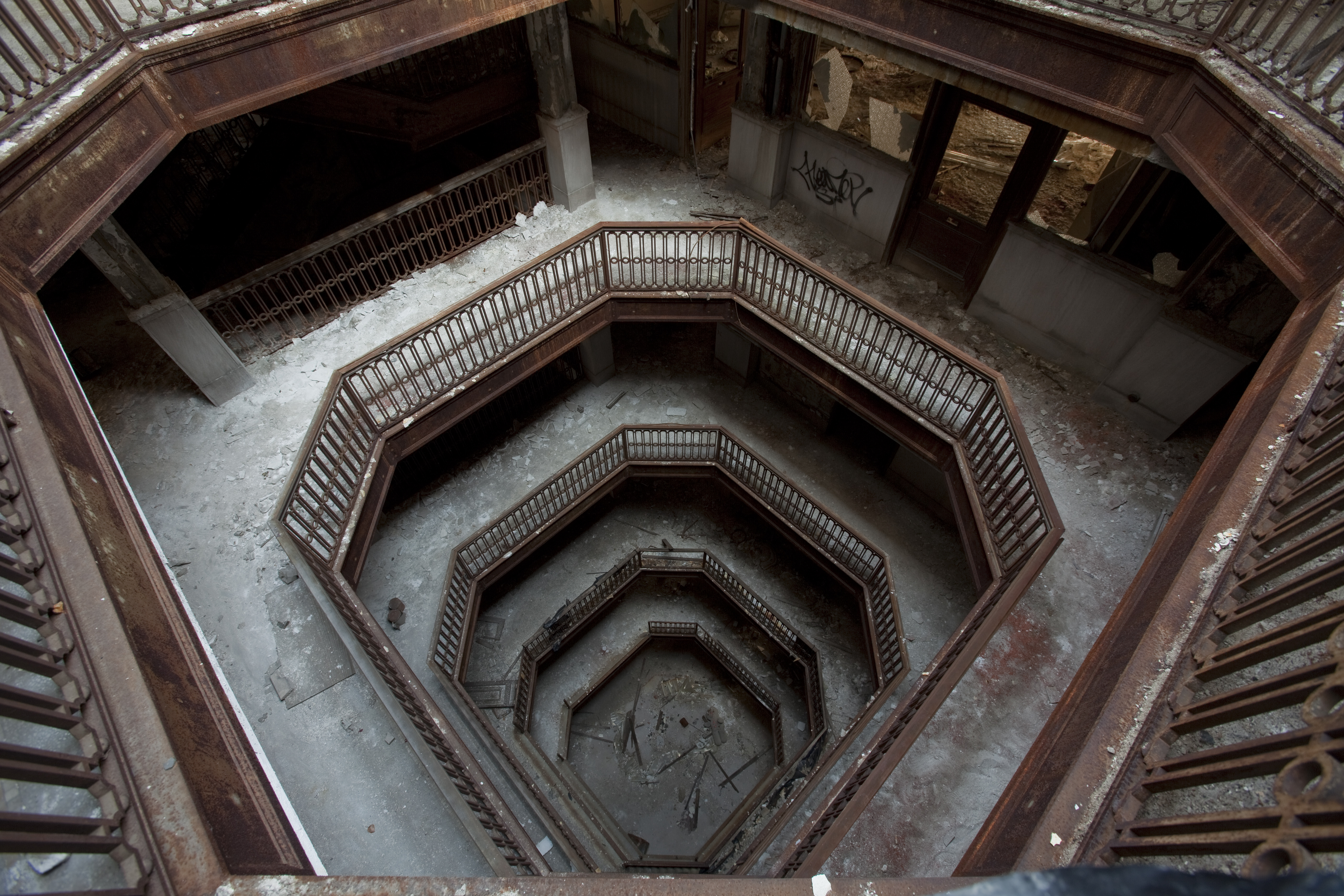 Interior view of the Farwell Building — located in Downtown Detroit. Taken from the sixth floor, looking down the central lightwell.